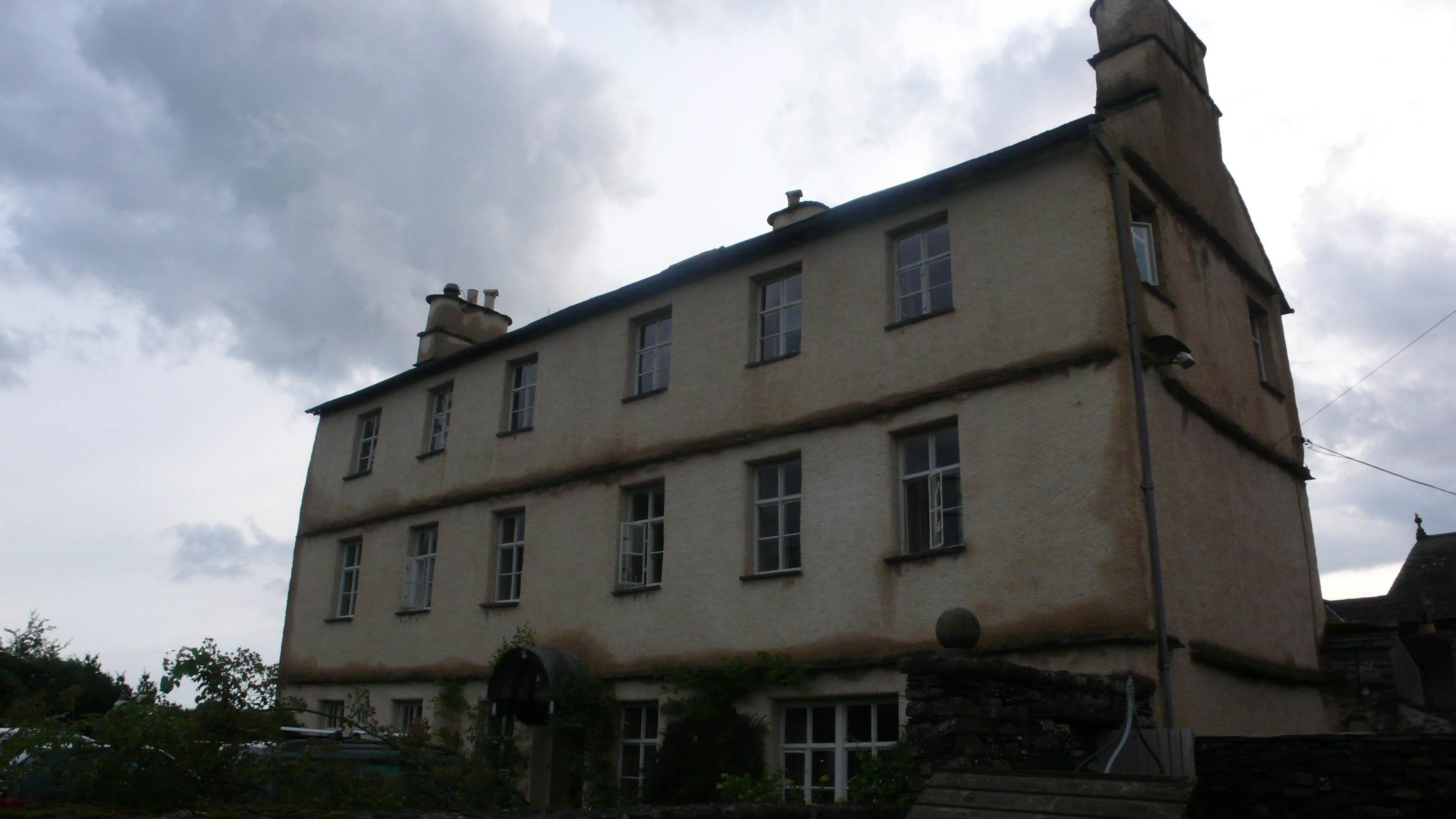 COWMIRE HALL AND WALL RUNNING APPROXIMATELY 20 METRES TO EAST, WITH GATE PIERS Wikidata has entry Q17543996 with data related to this building.